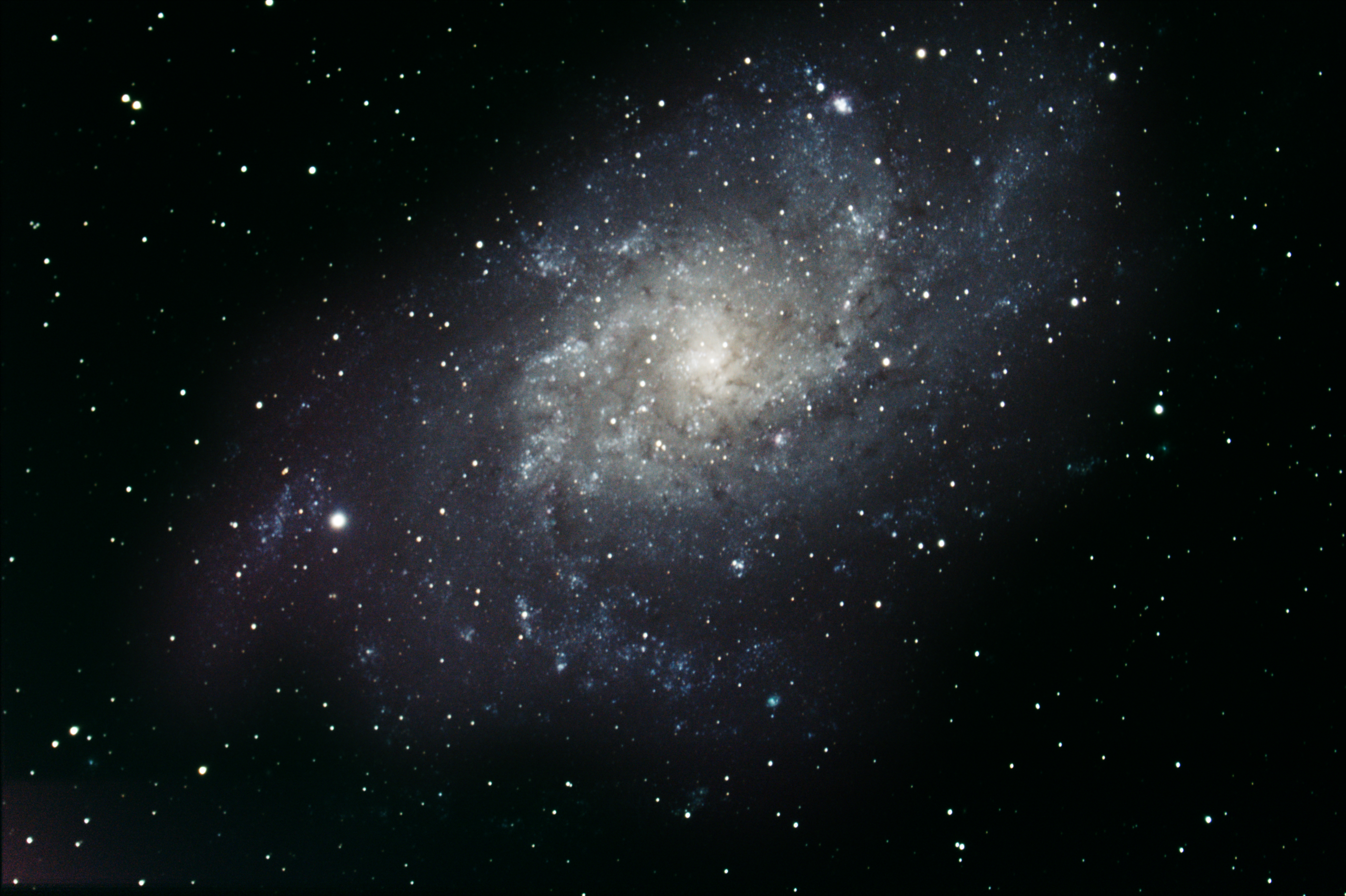 This image was taken at Blackstrap provincial park, using a Celestron Edge HD 8" telescope with a Nikon D5200 camera.